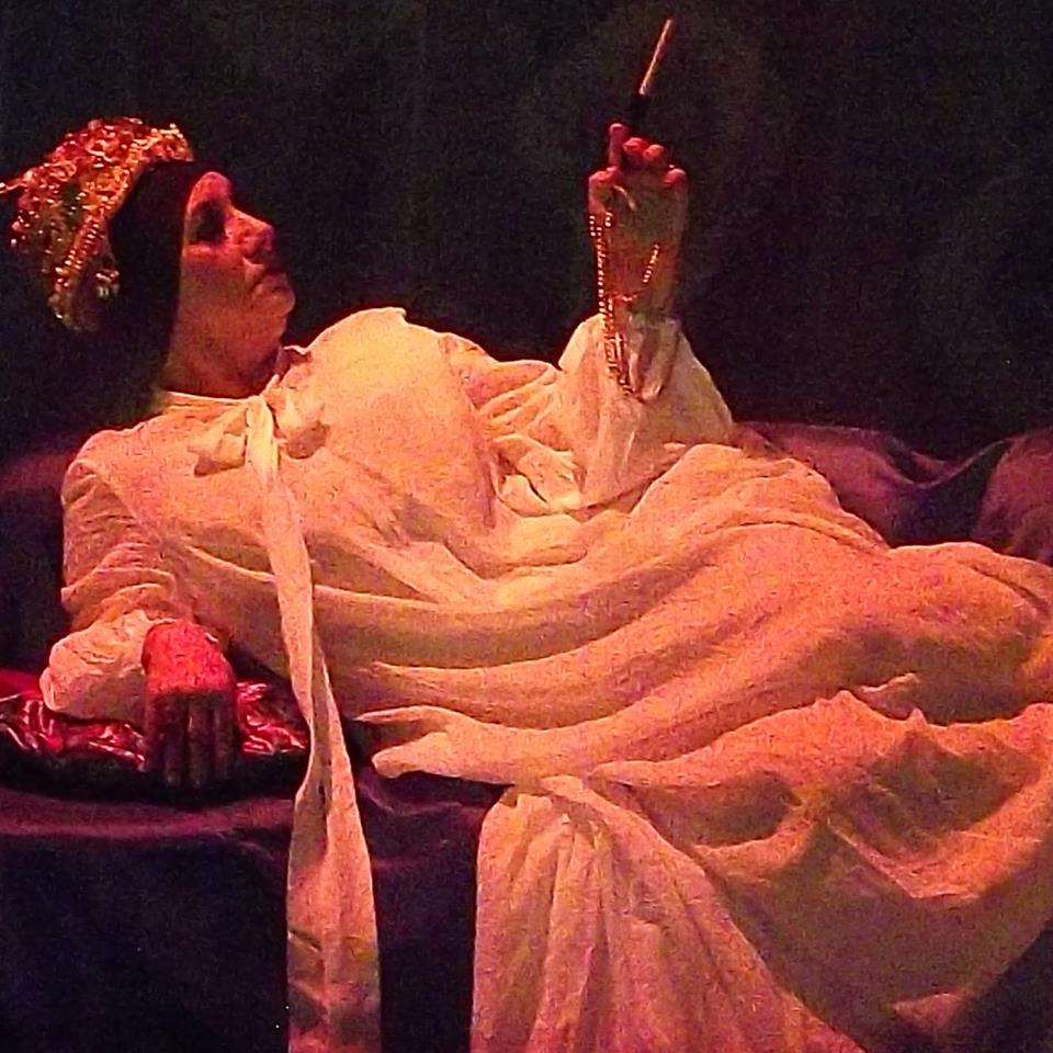 Claudia as Sarah Bernhardt